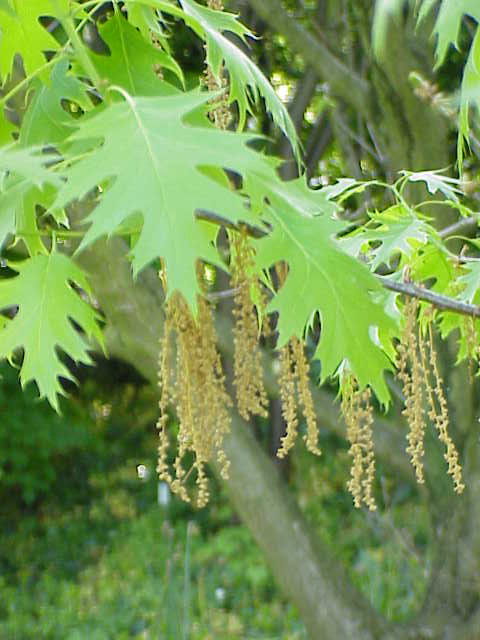 Species: Quercus coccinea Family: Fagaceae Image No. 2